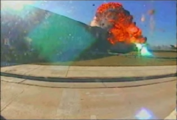 Still (4 of 8) from security video of American Airlines Flight 77 striking the Pentagon on September 11, 2001.